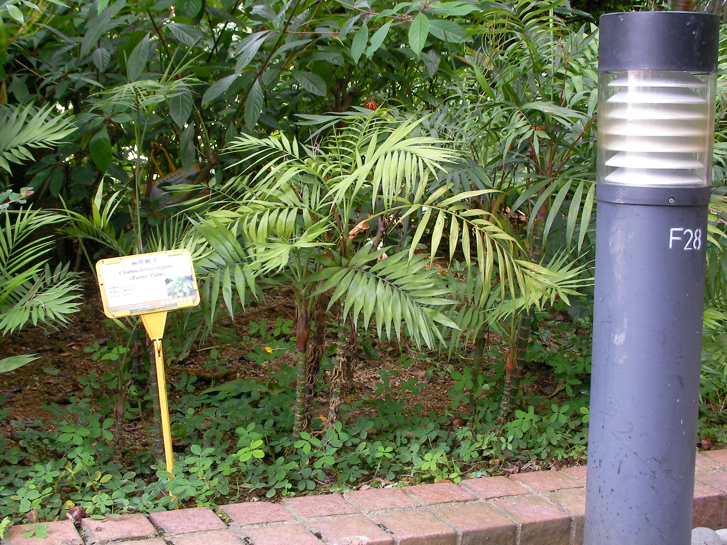 Chamaedorea elegans taken at Hong Kong Zoological and Botanical Gardens